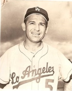 An early 1960s Houston Colt 45's press photo of Norm Larker, who was drafted by the team in 1962. The website also shows the information about Larker in the back of the photograph (which I can upload in request), and without a copyright notice. A check of several other pictures doesn't include copyright notices. It is therefore presumed the entire Colt 45s press kit is PD not renewed/PD no copyright 1978.